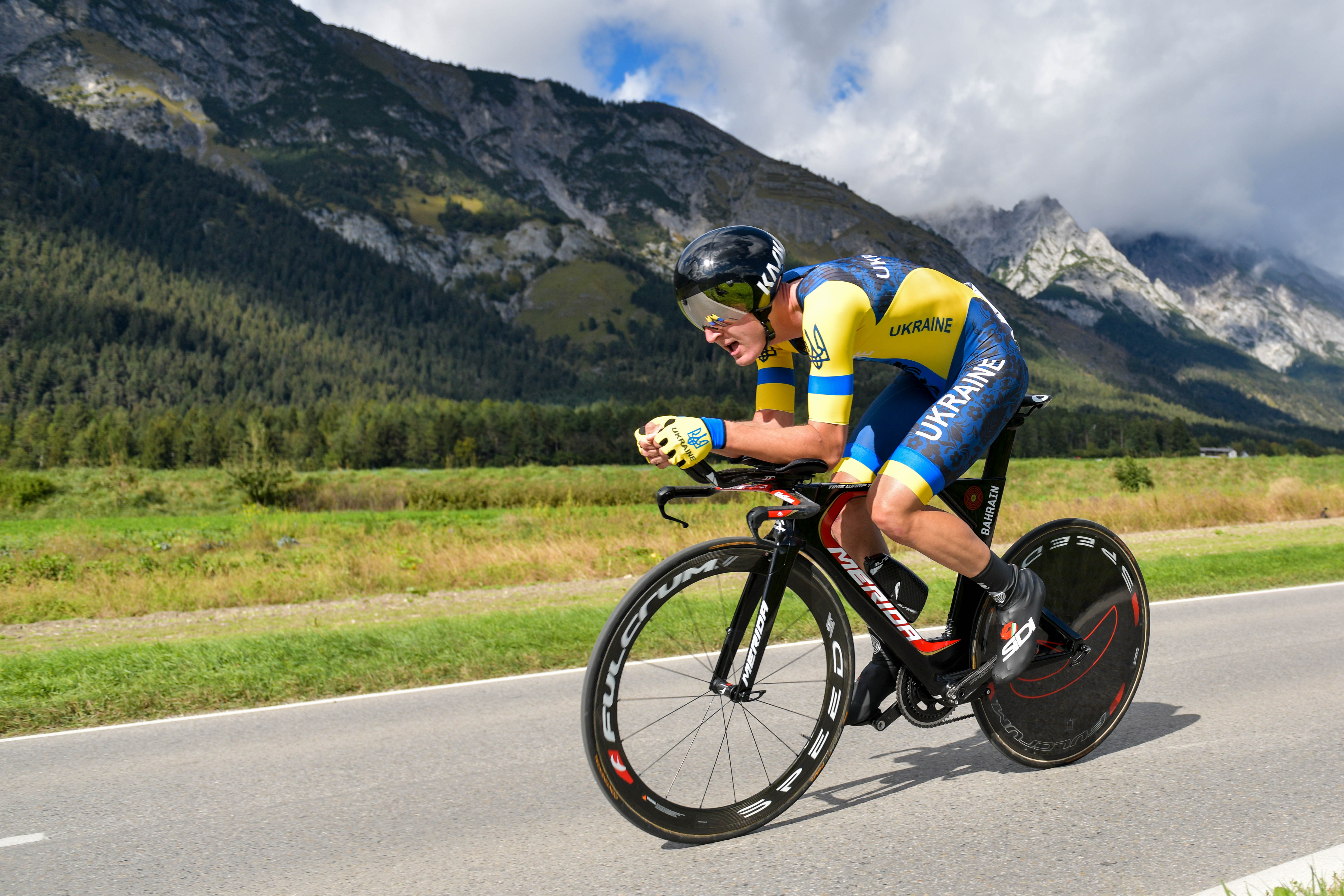 2018 UCI Road World Championships Innsbruck/Tirol Men under 23 Individual Time Trial. Picture shows: Mark Padun of the Ukraine